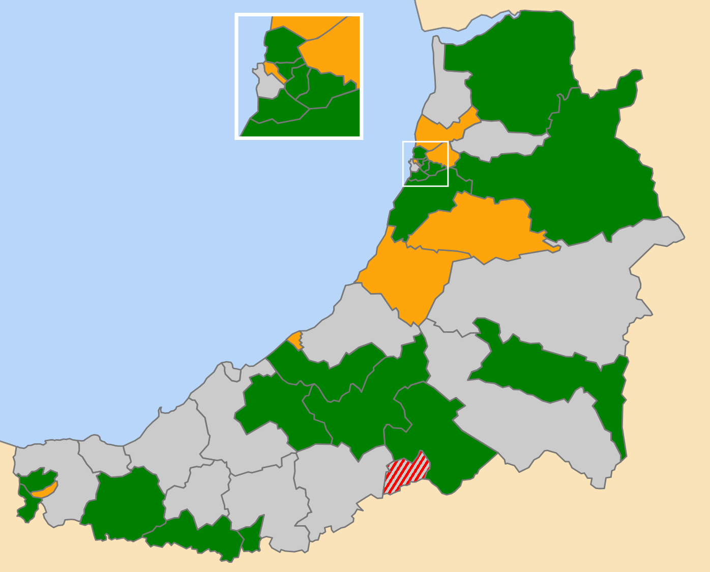 Map of Ceredigion, Wales, UK showing the results of the 2012 local election. Colours: Plaid Cymru Independents Liberal Democrats Labour